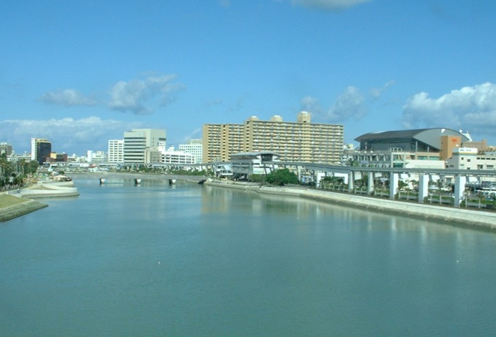 Kokuba River, Okinawa City Monorail Line